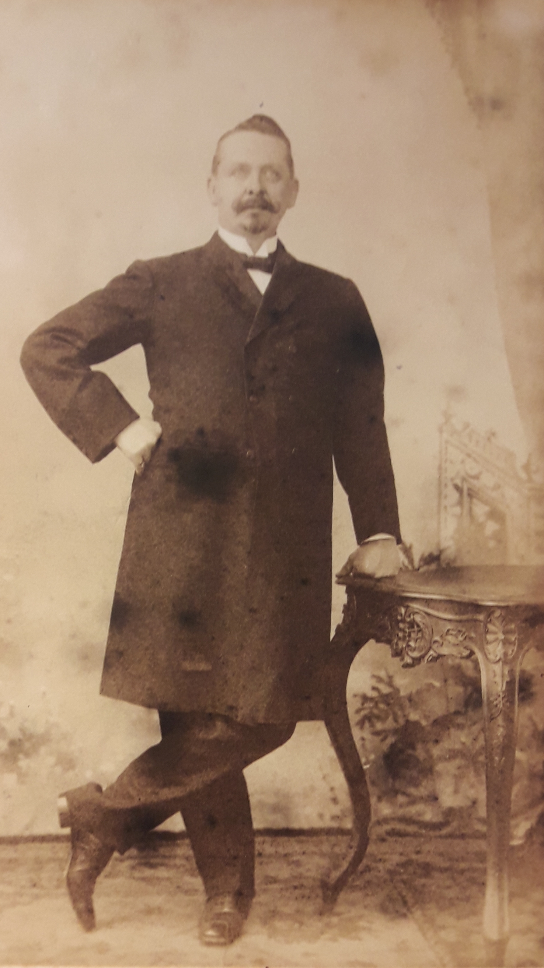 Franciscus De la Montagne